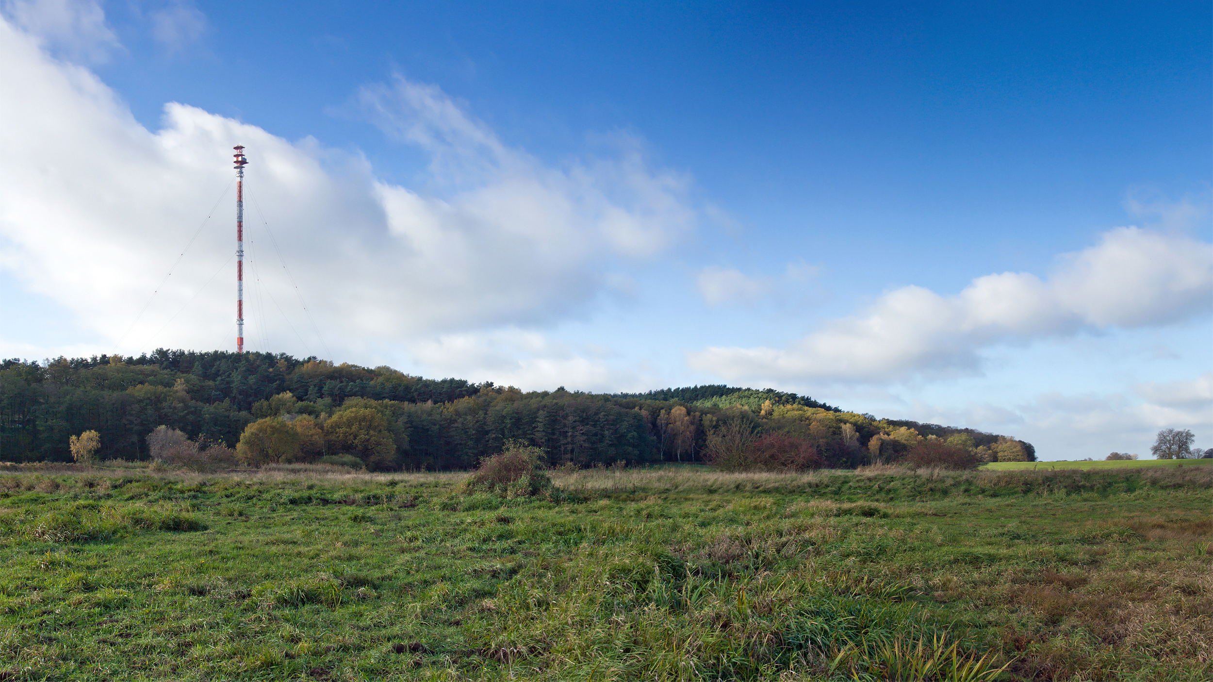 Wooded north-east side of the moraine Höhbeck in the Lower Saxon Elbe Valley.